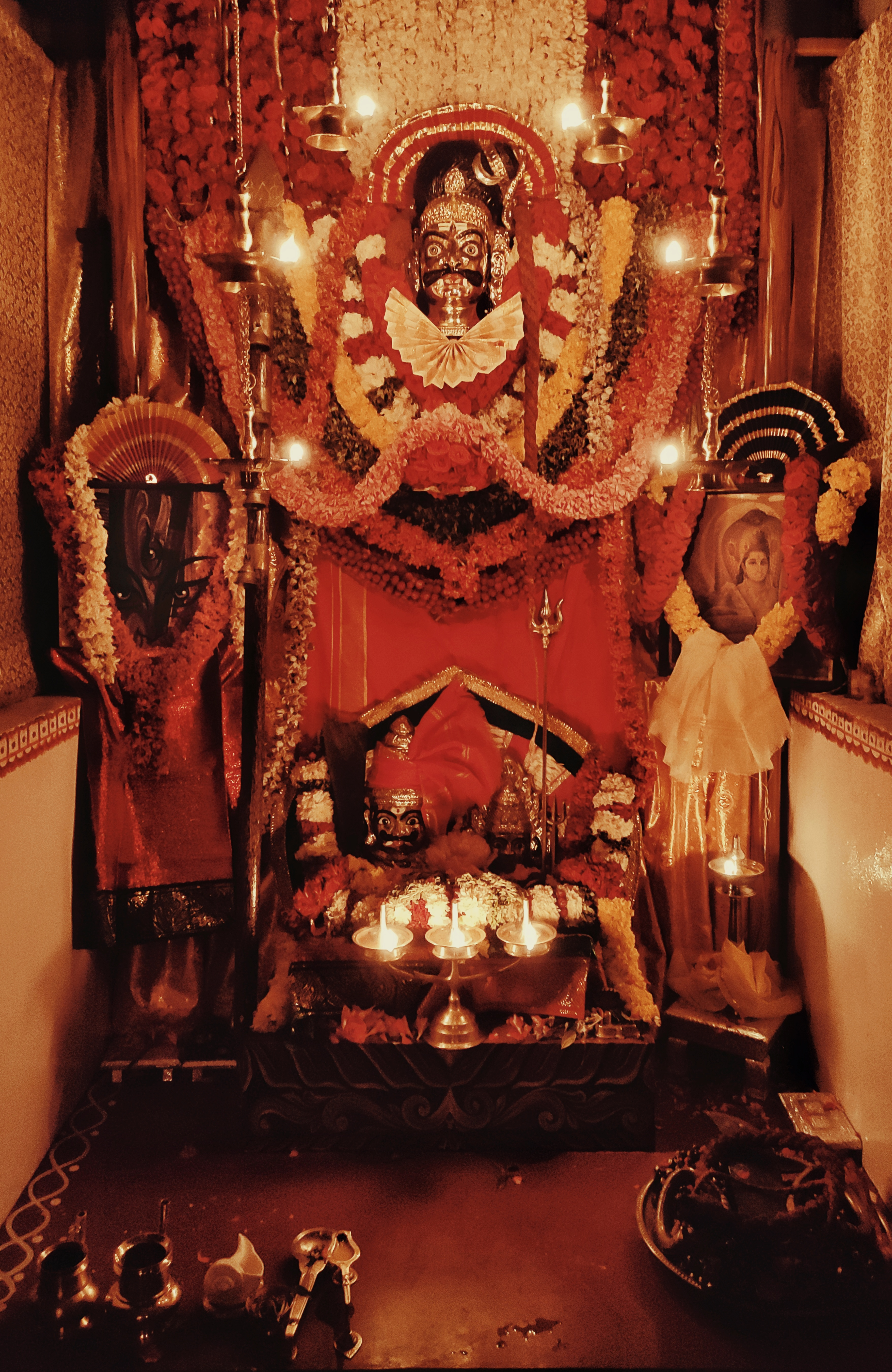 Mayyana vettaikaran shiva sudalai madan, Pattom, Trivandrum, Kerala